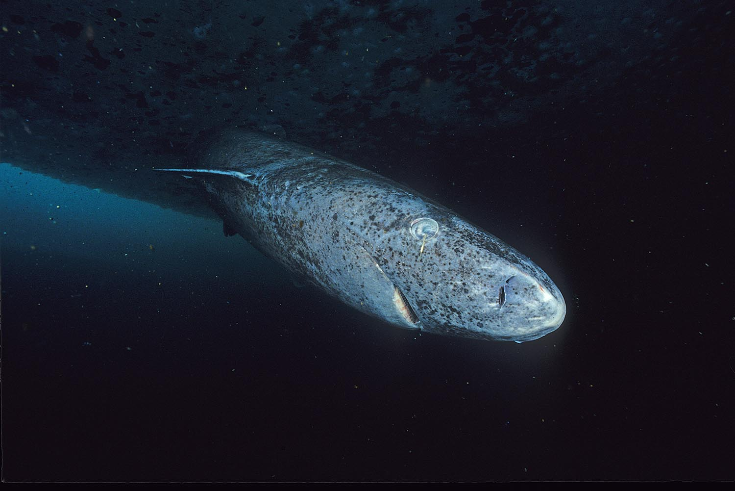 Close up image of a greenland shark taken at the floe edge of the Admiralty Inlet, Nunavut.